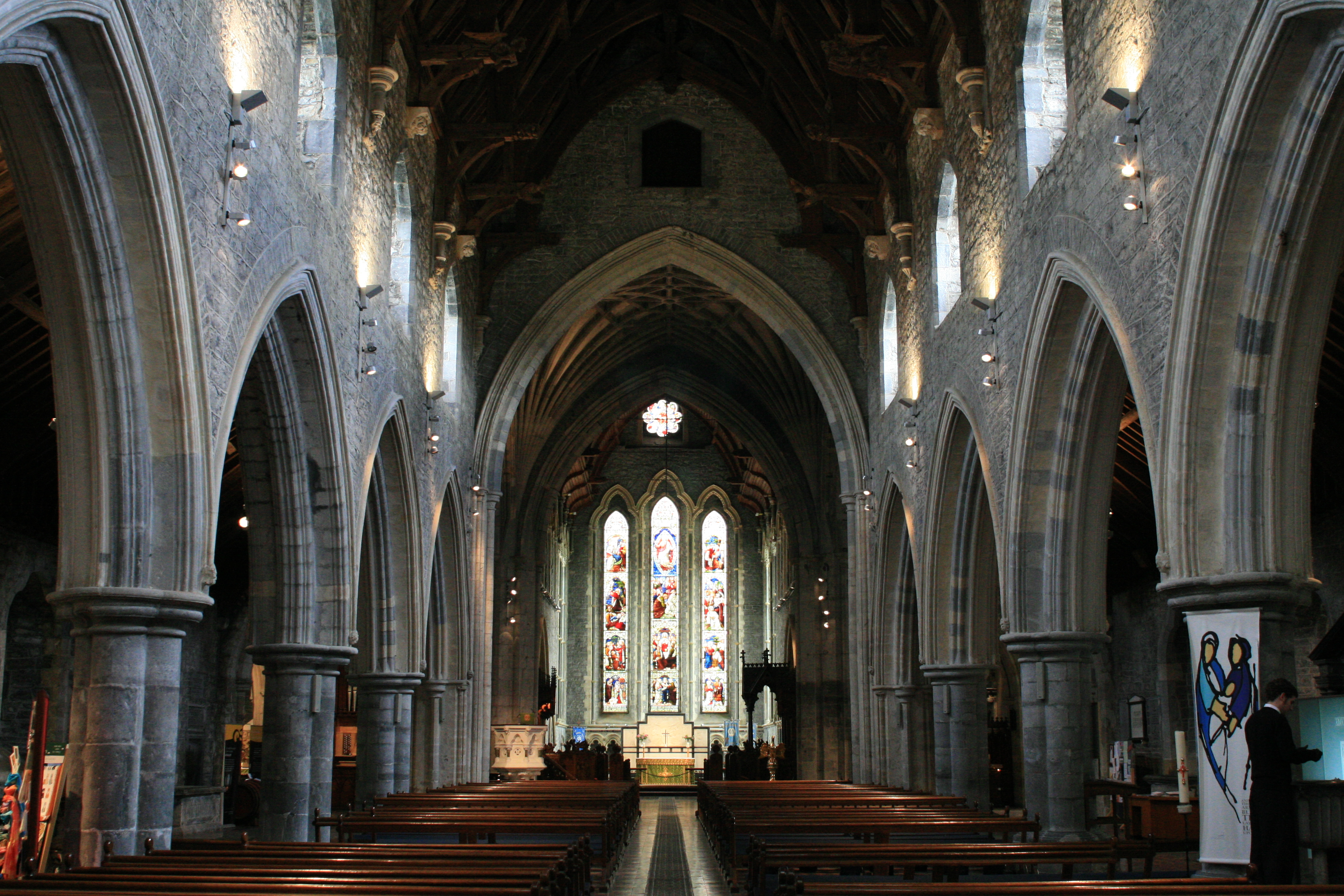 Kilkenny, Co. Kilkenny, Ireland Nave of St. Canice's cathedral, looking east.